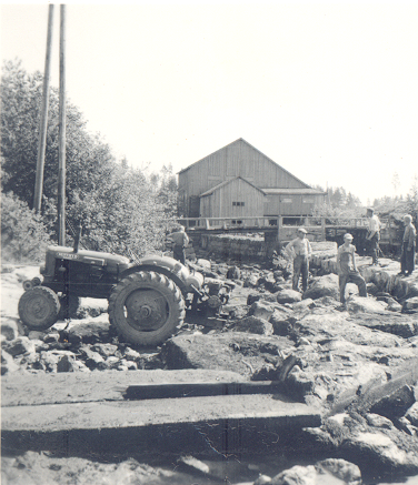 The demolition site of the Mattilankoski dam, seen from upstream. The part of the dam located upstream from the bridge was demolished as a part of dam altering works. On the background, the road bridge crossing Mattilankoski and, behind it, the mill and the lumber mill can be seen.